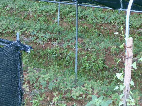 Young shoots of cultivated ginseng Photo taken on the island of Kangwha